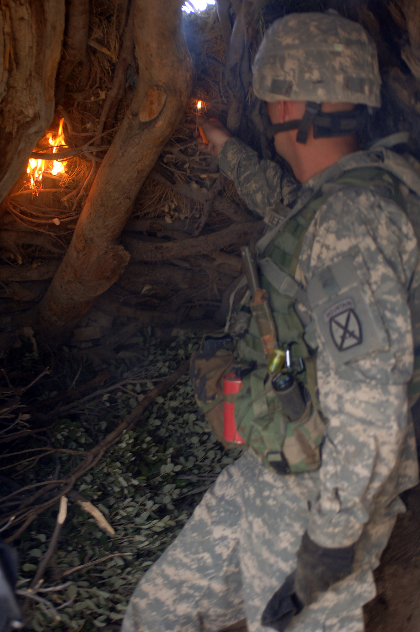 burning a safe house. Original caption: Operation Catamount Fury "A Soldier from Charlie Company 2nd Battalion, 87th Infantry Regiment sets fire to a Taliban safehouse discovered during Operation Catamount Fury, a battalion size mission taking place in the Paktika Province of Afghanistan on March 30, that is focused on limiting the movement of the Taliban within Paktika. Photo ID: 41560